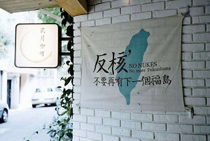 Widely-used Logo in Taiwan after the earthquake-induced nuclear disaster in Japan